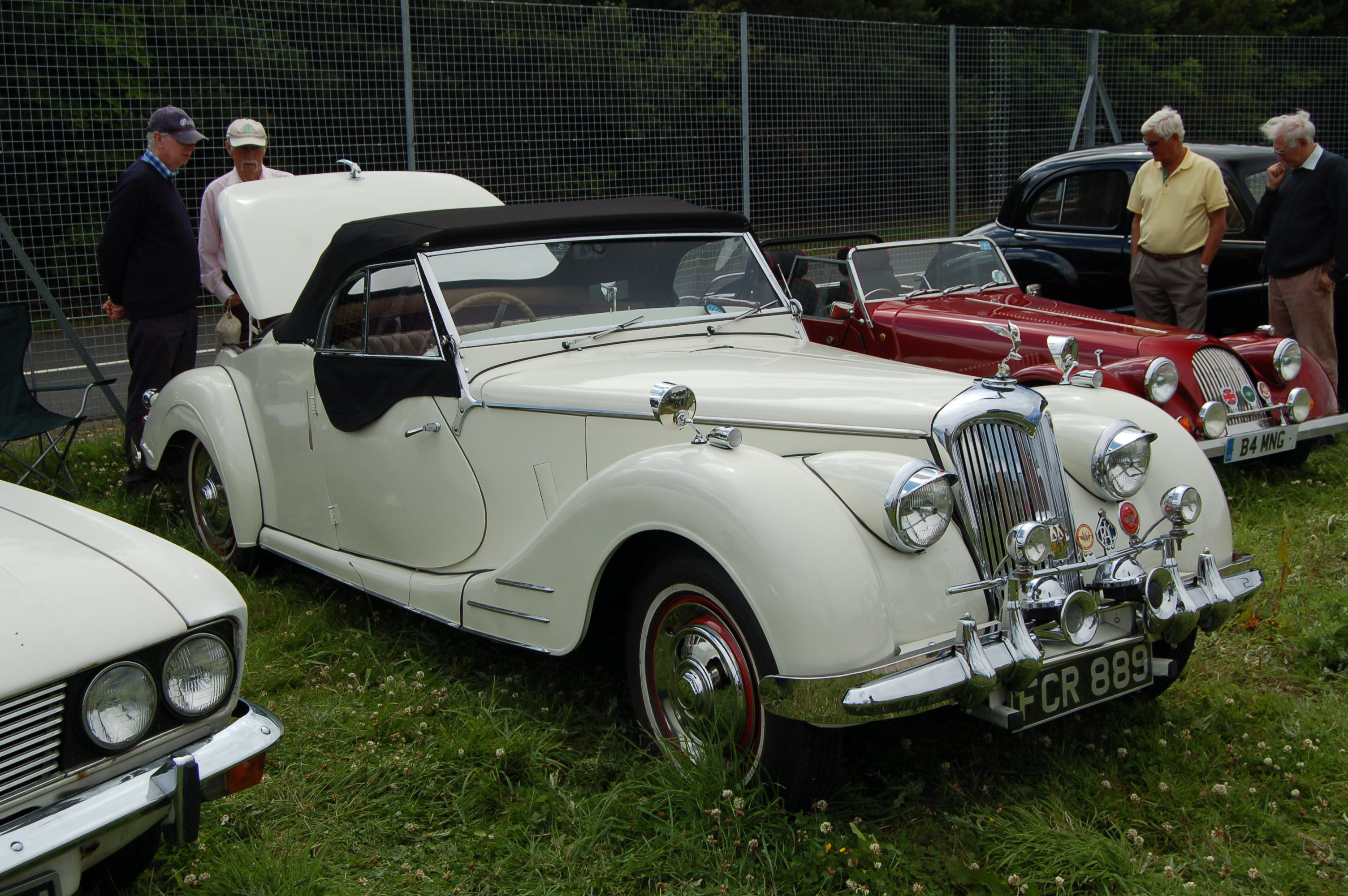 Riley RMC 1948 open two-seater (DVLA) first registered 28 June 1948, 2449cc